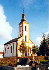 Serbian-Othodox church in Srbac